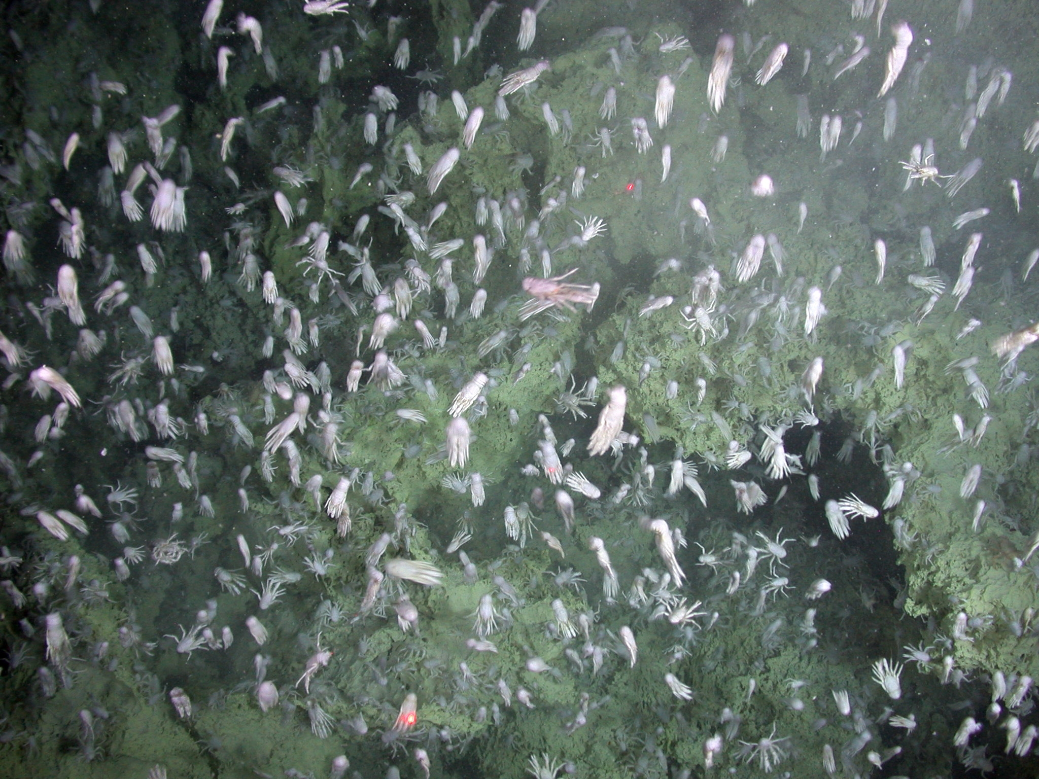 Ring of Fire 2006 Expedition. The plethora of squat lobsters at Seamount X, disperse as the Jason II ROV comes in for a closer view. 2006.